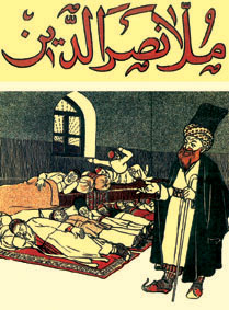 Cover of the first issue of Molla Nasreddin, published 7 April 1906, referencing a verse from the poet Ṣāber, "Don't wake them, let them sleep." Courtesy of the author. "Molla Nasreddin" magazine (published from 1906 untill 1931). First publication in Tiflis (Tbilisi)